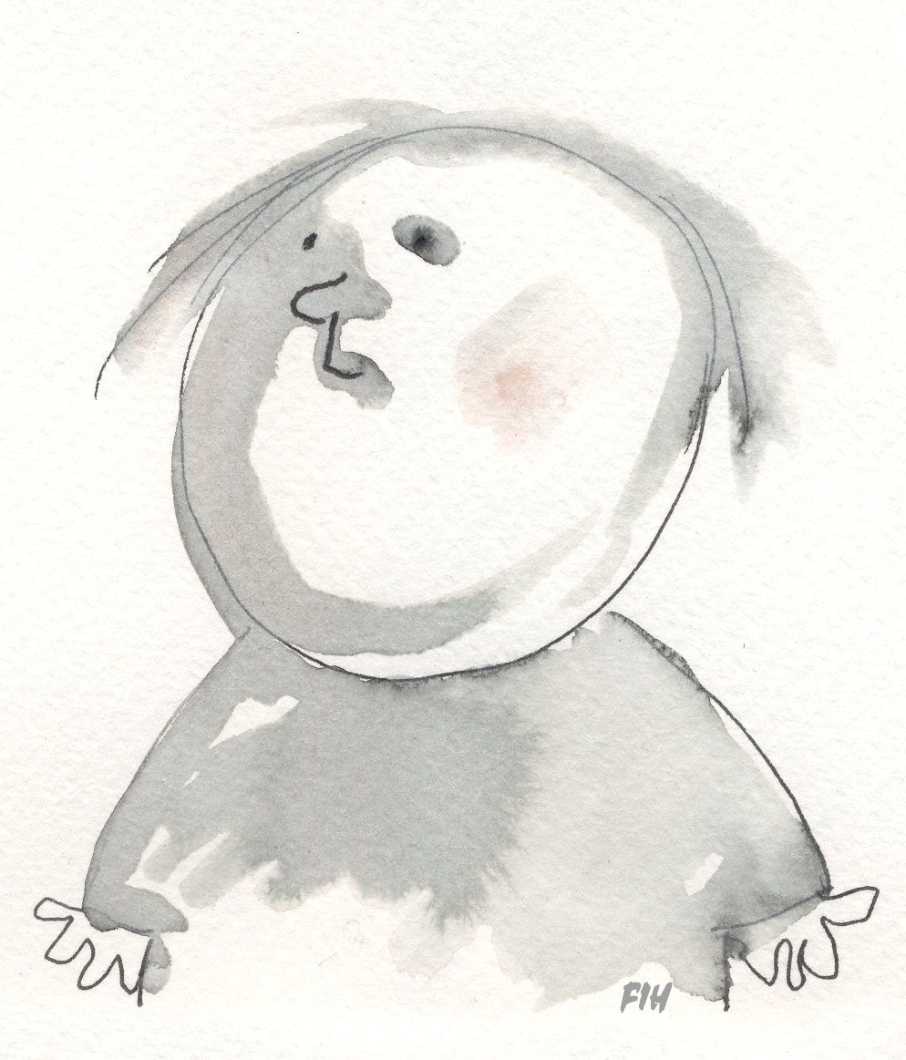 Vignette. Can anybody help me?